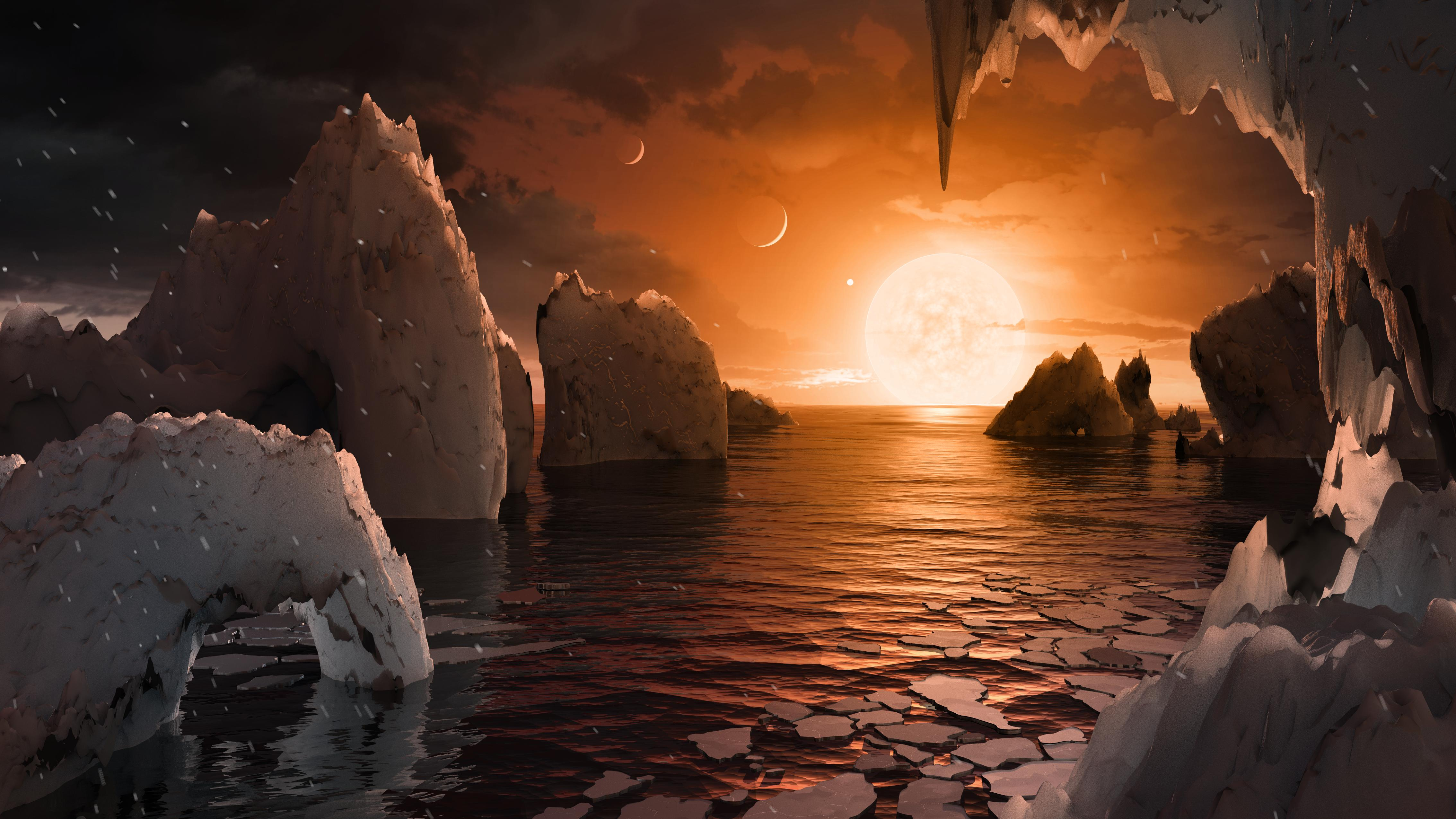 This artist's concept allows us to imagine what it would be like to stand on the surface of the exoplanet TRAPPIST-1f, located in the TRAPPIST-1 system in the constellation Aquarius. Because this planet is thought to be tidally locked to its star, meaning the same face of the planet is always pointed at the star, there would be a region called the terminator that perpetually divides day and night. If the night side is icy, the day side might give way to liquid water in the area where sufficient starlight hits the surface. One of the unusual features of TRAPPIST-1 planets is how close they are to each other -- so close that other planets could be visible in the sky from the surface of each one. In this view, the planets in the sky correspond to TRAPPIST1e (top left crescent), d (middle crescent) and c (bright dot to the lower right of the crescents). TRAPPIST-1e would appear about the same size as the moon and TRAPPIST1-c is on the far side of the star. The star itself, an ultra-cool dwarf, would appear about three times larger than our own sun does in Earth's skies. The TRAPPIST-1 system has been revealed through observations from NASA's Spitzer Space Telescope and the ground-based TRAPPIST (TRAnsiting Planets and PlanetesImals Small Telescope) telescope, as well as other ground-based observatories. The system was named for the TRAPPIST telescope. NASA's Jet Propulsion Laboratory, Pasadena, California, manages the Spitzer Space Telescope mission for NASA's Science Mission Directorate, Washington. Science operations are conducted at the Spitzer Science Center at Caltech, also in Pasadena. Spacecraft operations are based at Lockheed Martin Space Systems Company, Littleton, Colorado. Data are archived at the Infrared Science Archive housed at Caltech/IPAC. Caltech manages JPL for NASA. For more information about the Spitzer mission, visit and